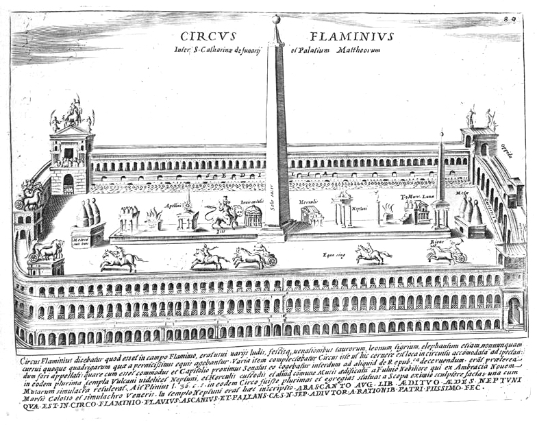 part of the series Antiquae Urbis Splendor